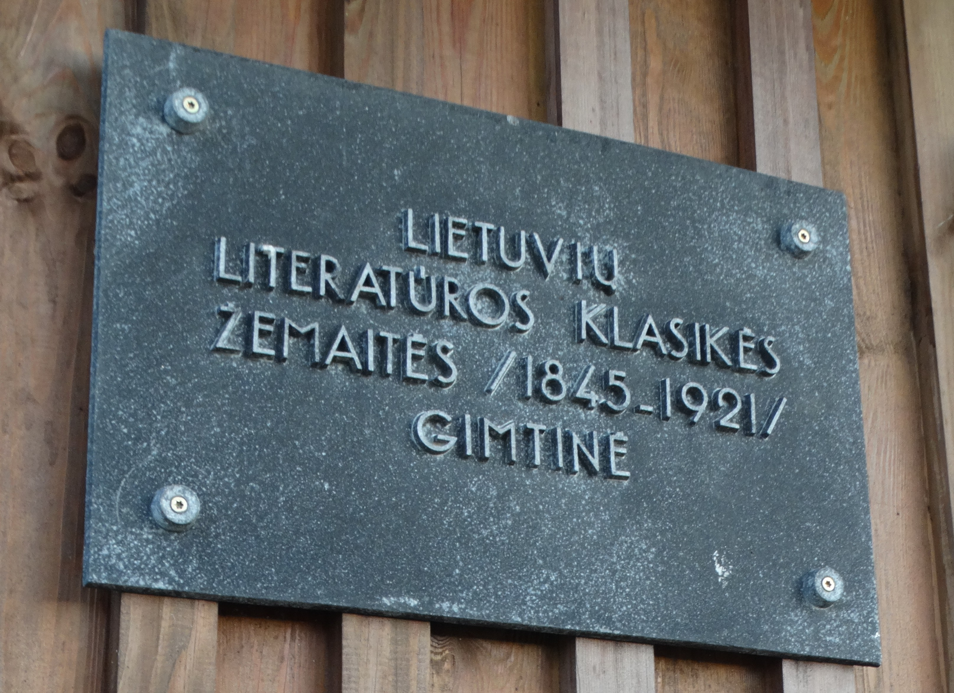 Memorial plaque to Žemaitė, former manor Bukantė, Plungė district, Lithuania